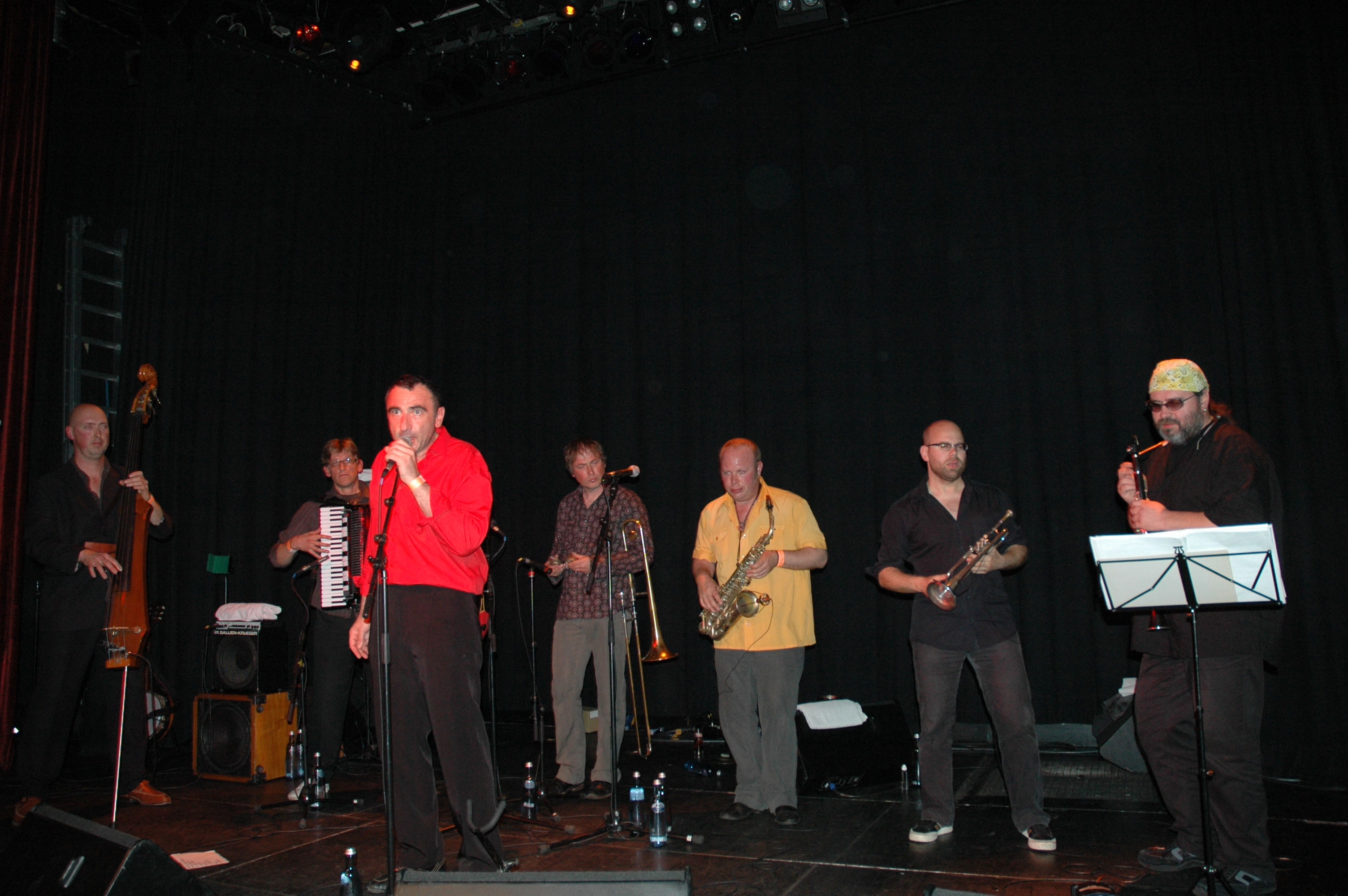 Amsterdam Klezmer Band at the Gloria Theater in Köln, Germany